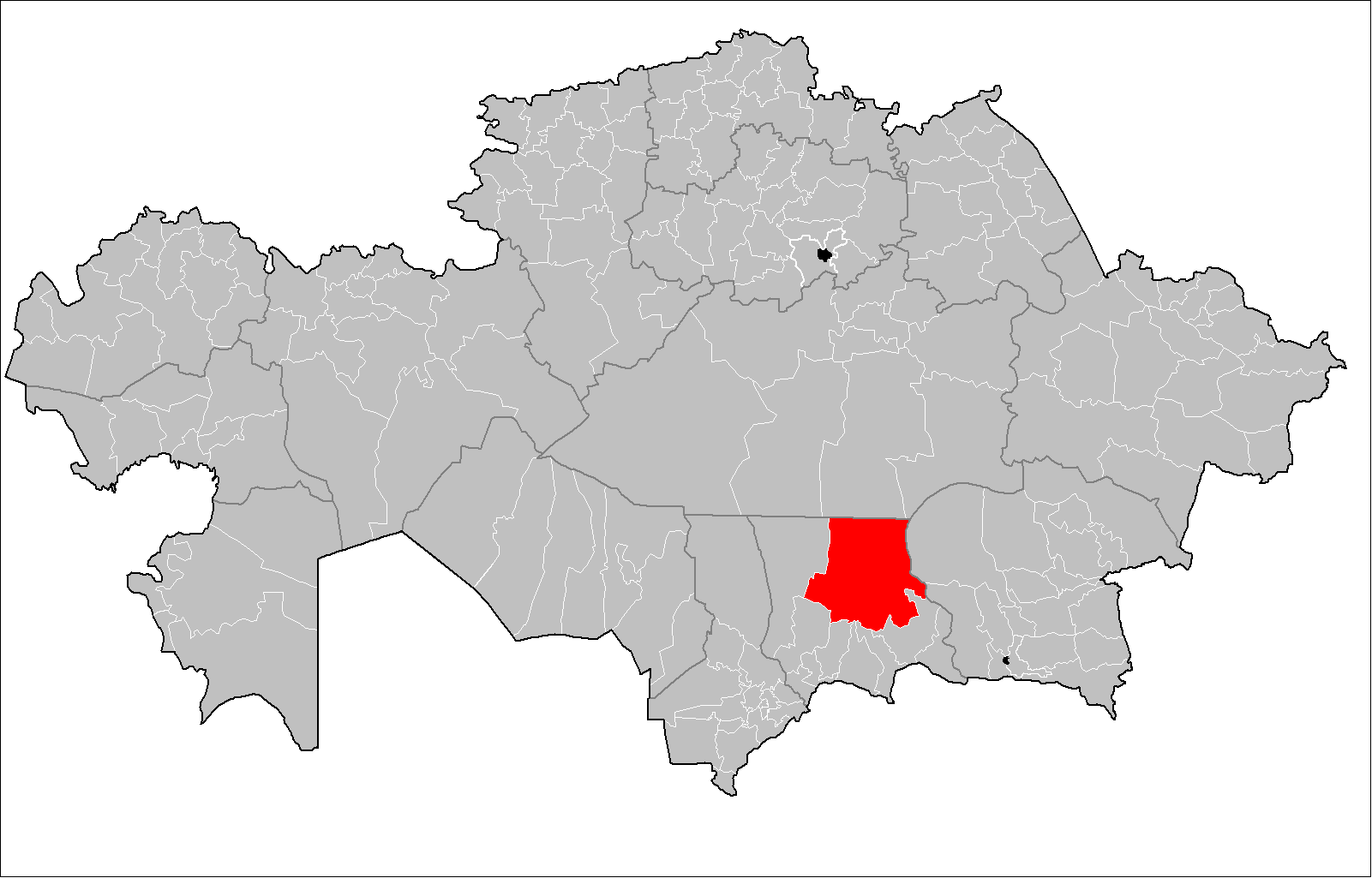 Map of the rayons of Kazakhstan. Created by Rarelibra 16:49, 3 August 2007 (UTC) for public domain use, using MapInfo Professional v8.5 and various mapping resources.